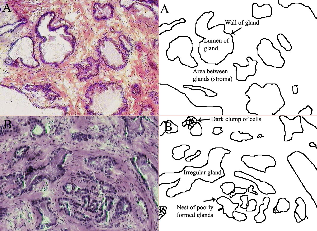 Created by me based on photomicrographs from US government site All changes released into public domain